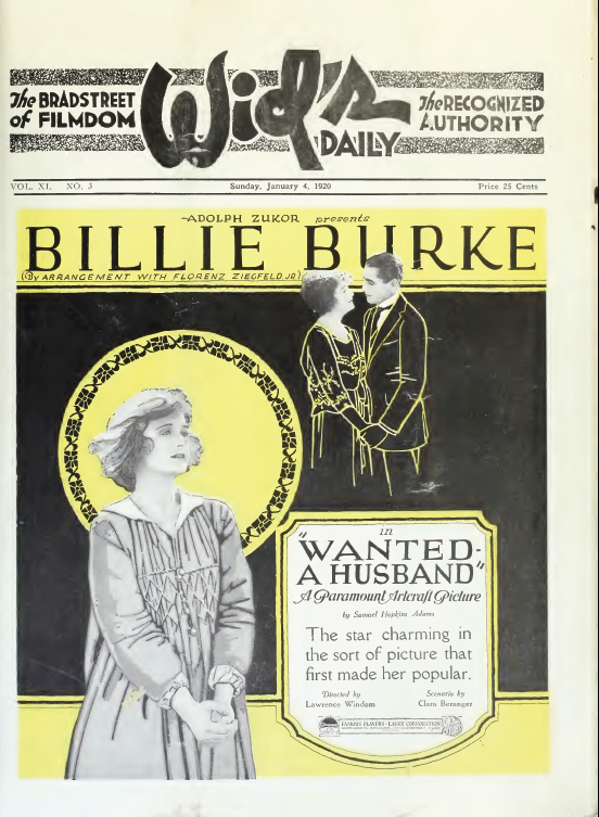 Billie Burke in the American comedy film Wanted: A Husband (1919), directed by Lawrence Windom, in Film Daily 1920